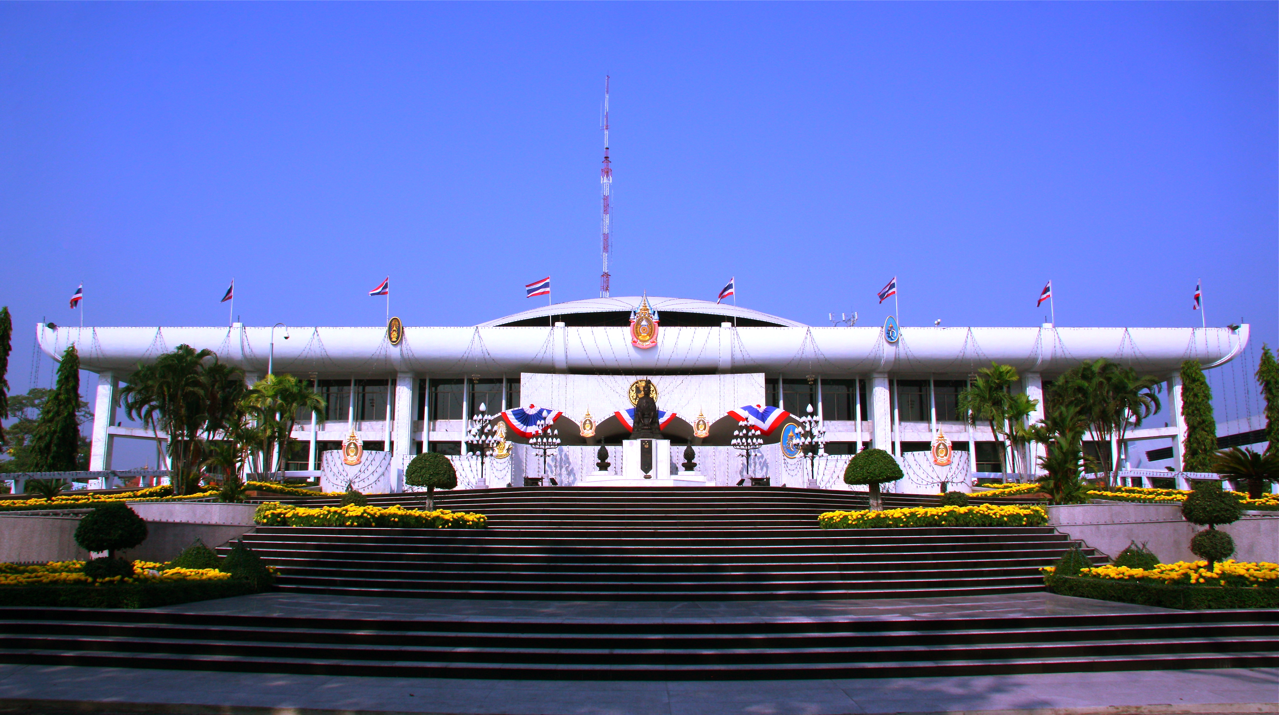 Parliament House of the Kingdom of Thailand (late 2008).